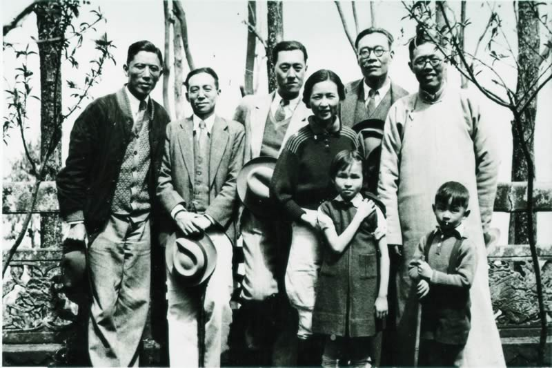 (from left to right) Zhou Peiyuan, Liang Sicheng, Chen Daisun, Lin Huiyin, Liang Zaibing (daughter of Liang & Lin), Jin Yuelin, Wu Youxun, Liang Congjie (son of Liang & Lin)